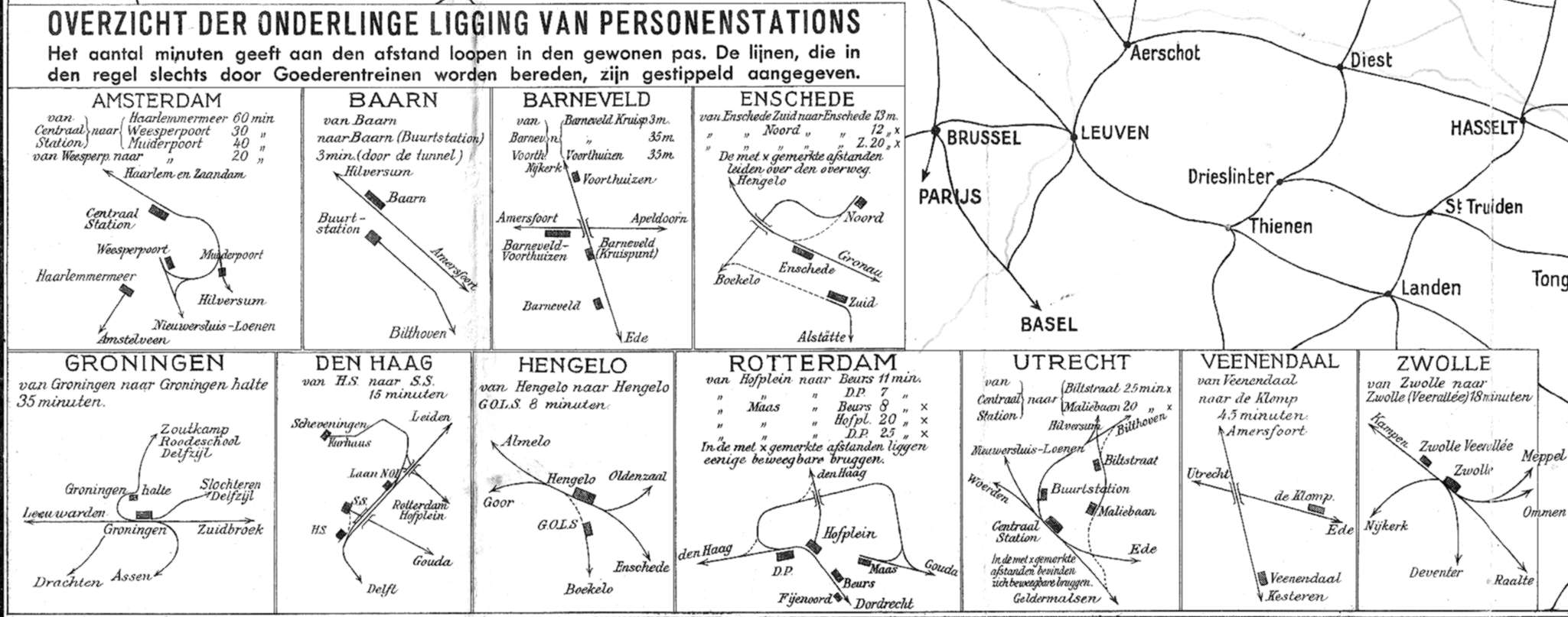 Excerpt from a map, published in 1936 by "Nederlandsche Spoorwegen", showing the historical situation at several Dutch railway stations.